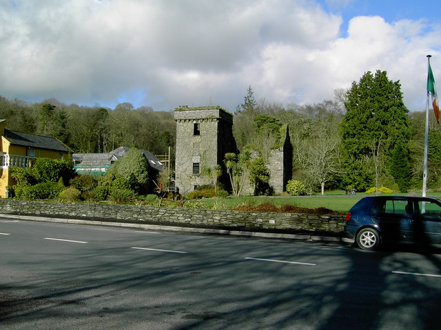 Ruin of old Mill, The Mill Inn, Ballyvourney, near to Baile Bhuirne, Murnaghbeg and Colthurst Bridge, Cork, Ireland. The Mills Inn is on the extreme right of this picture.